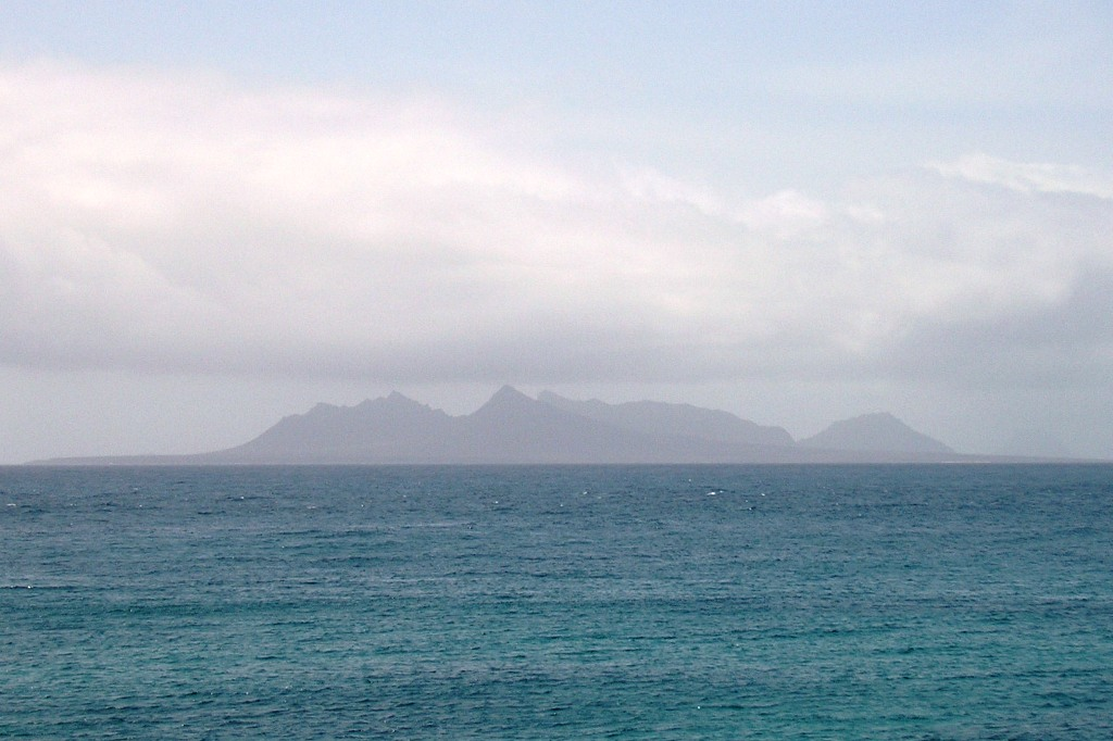 Santa Luzia island as seen from Calhau at São Vicente island, Cape Verde